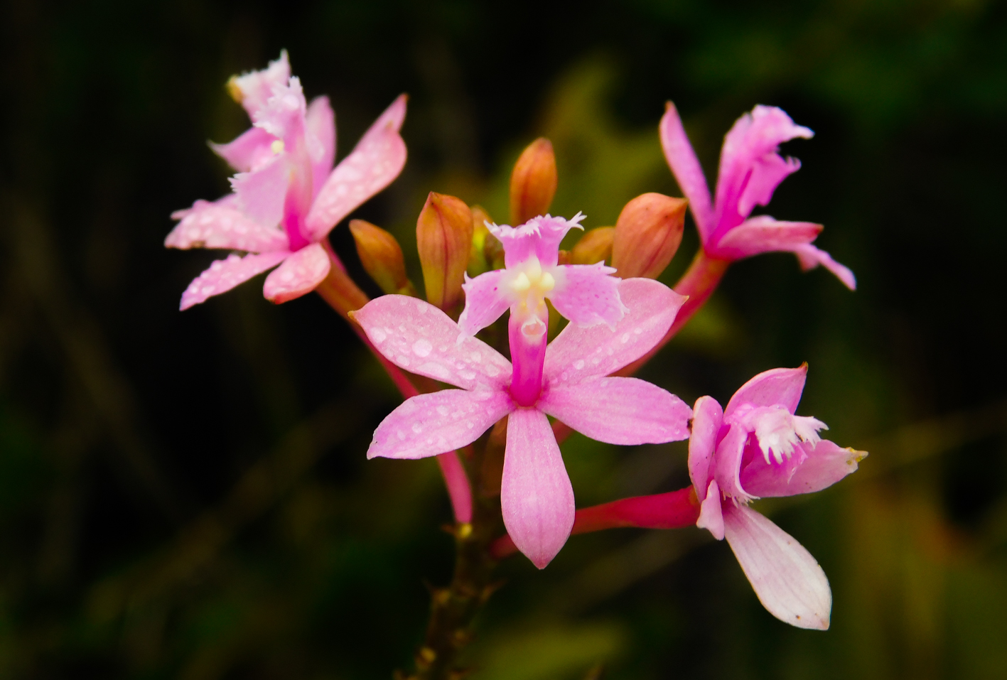 Epidendrum denticulatum, an orchid. This tropical plant is found from Rio Grande do Sul to Pernambuco, and pollinated by butterflies or ants. Epidendrum means "that inhabits trees" because the species of this genus are epiphytes (and some species are terrestrial).